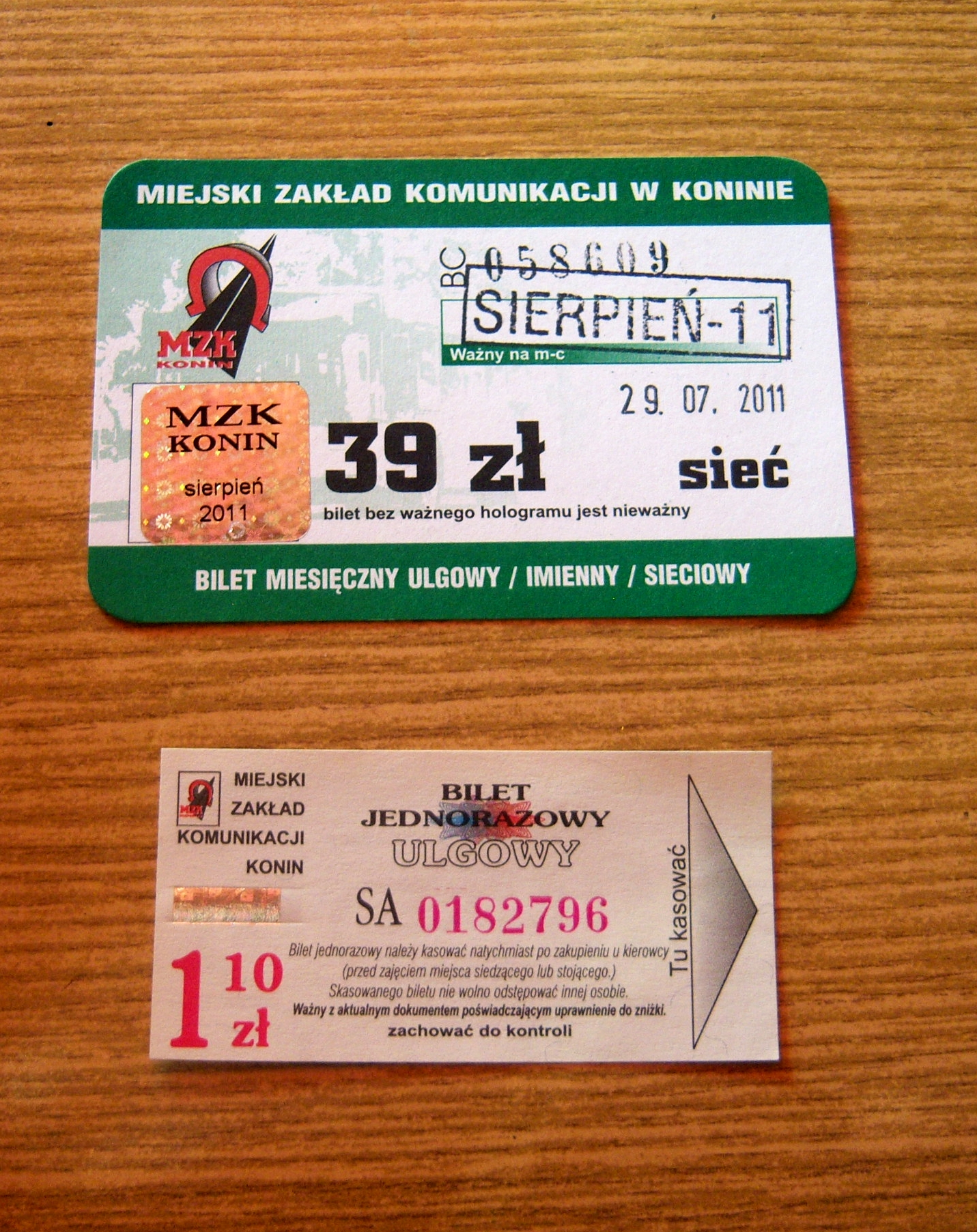 Monthly ticket (top) and a single ticket (bottom) Miejskiego Zakładu Komunikacji w Koninie (MZK Konin)